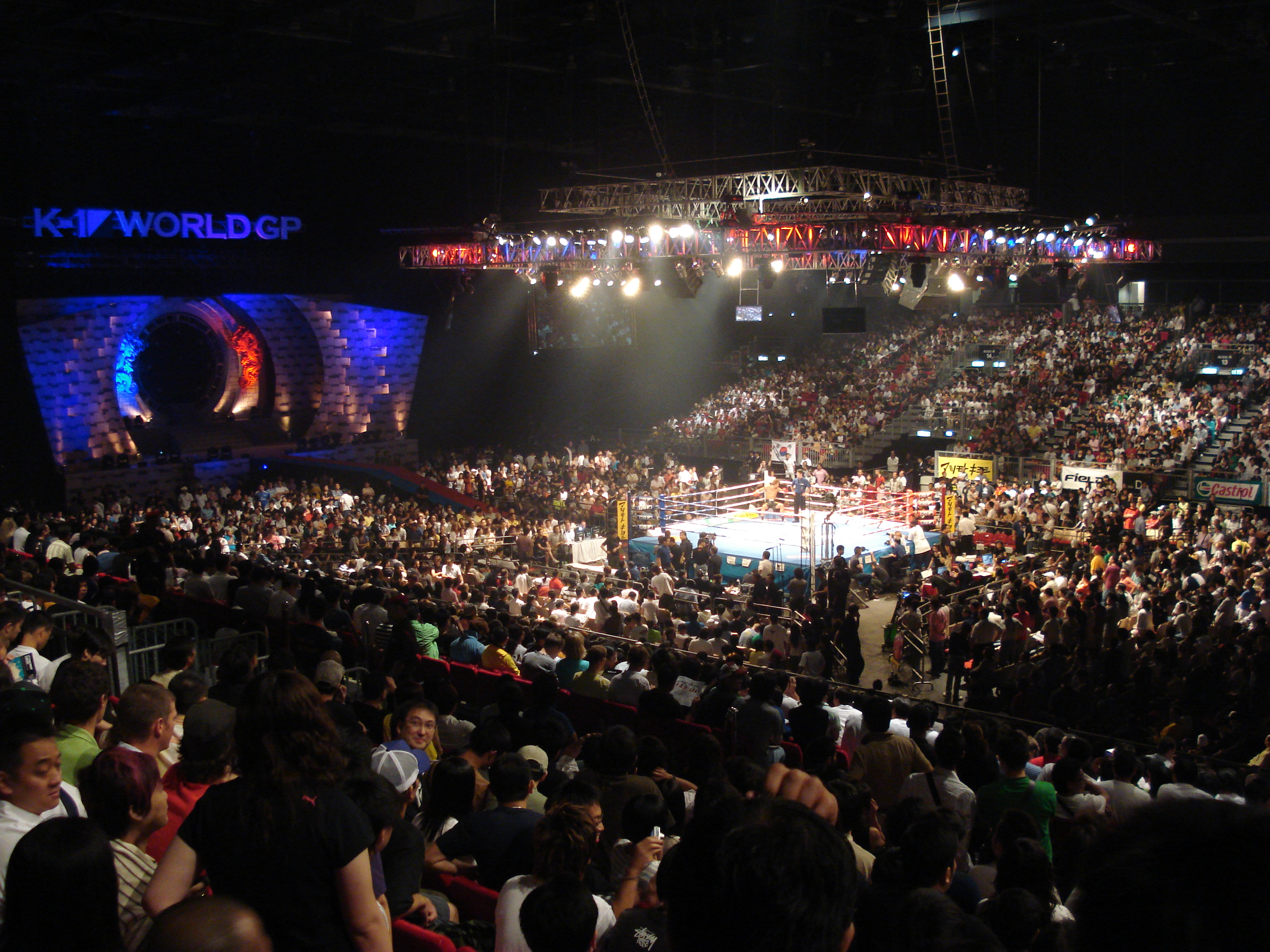 (user:Umi1903 , This file is taken by myself whilst my Hong Kong Trip)